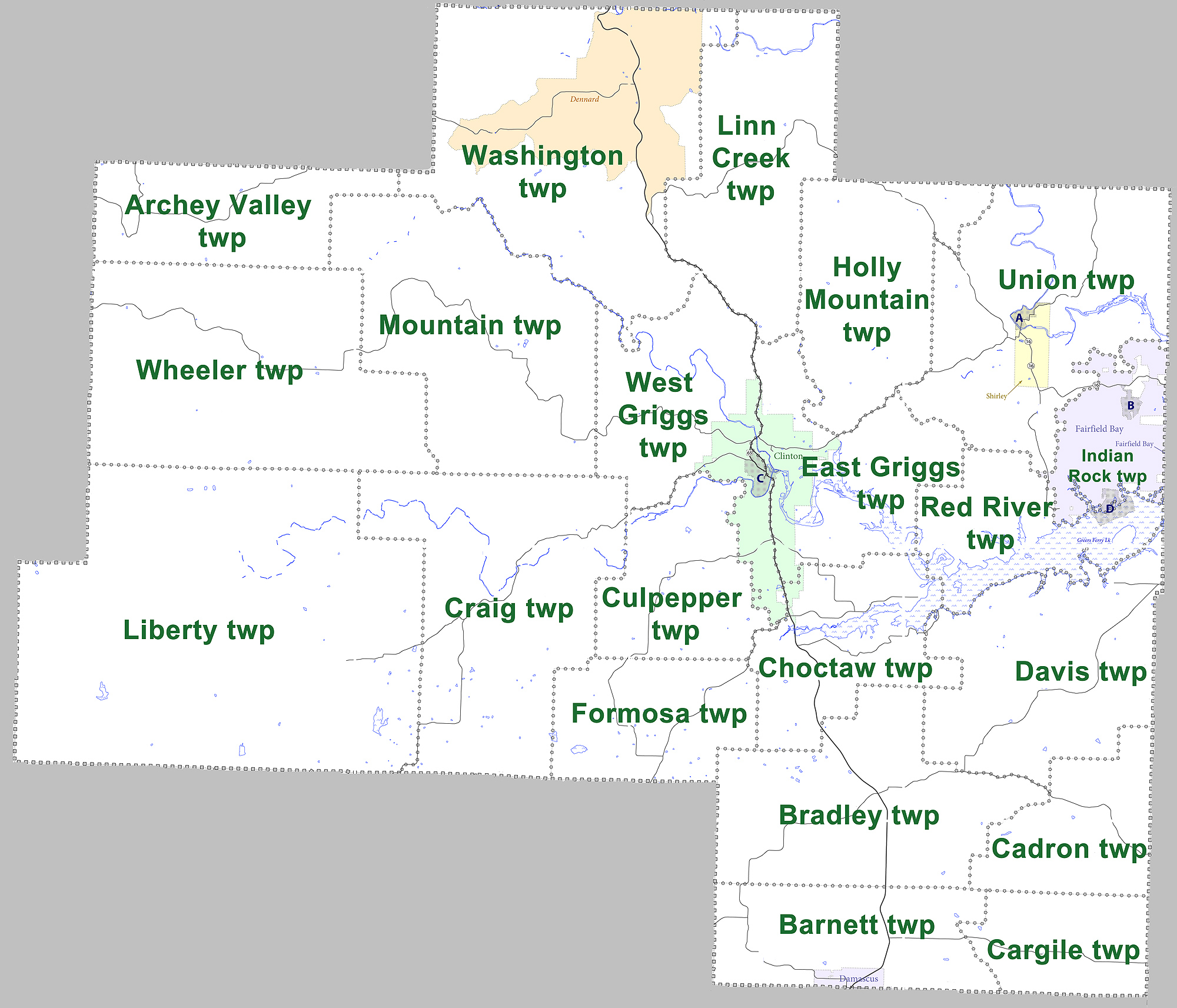 Large map showing townships in Van Buren County, Arkansas. Modified from US census map (for 2010 census) for Van Buren County, Arkansas